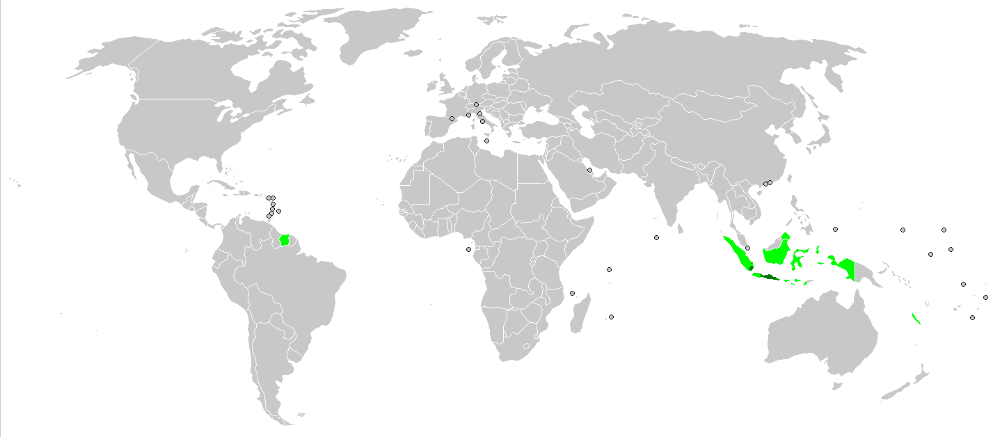 Map showing the distribution of Javanese worldwide.